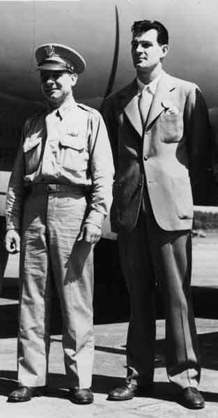 Image is a photograph of Jimmy Doolittle and Peyton M. Magruder in front of a B-26 Marauder during World War II. Photograph was taken by a US Soldier during the course of his job, as such content falls under Public Domain.